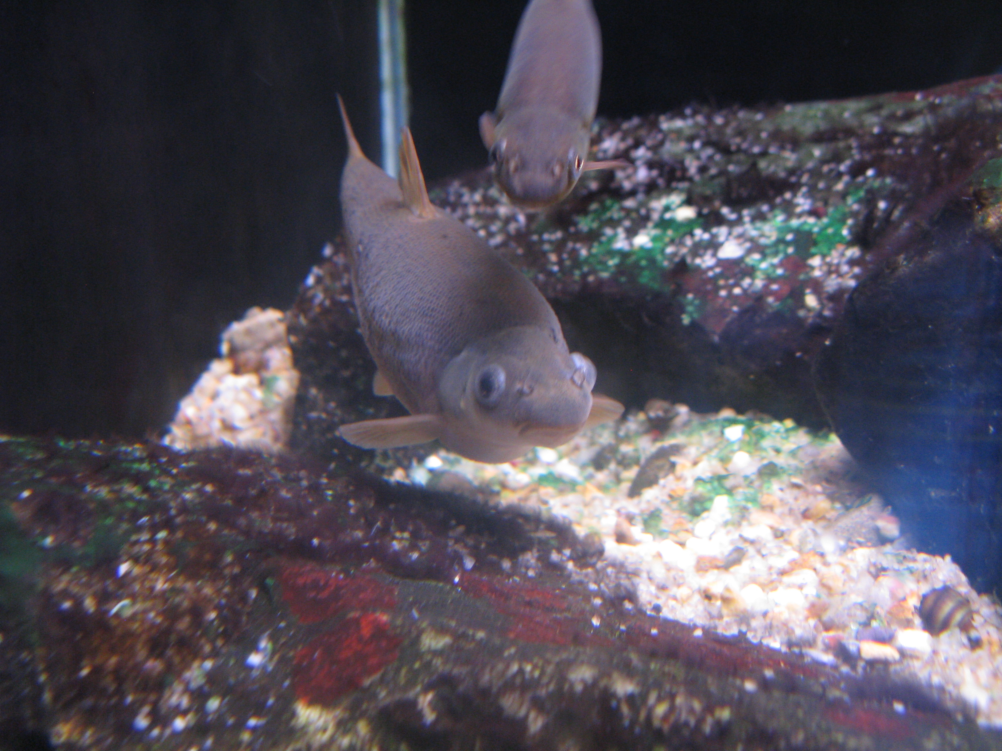 Scientific name Phoxinus oxycephalus jouyi